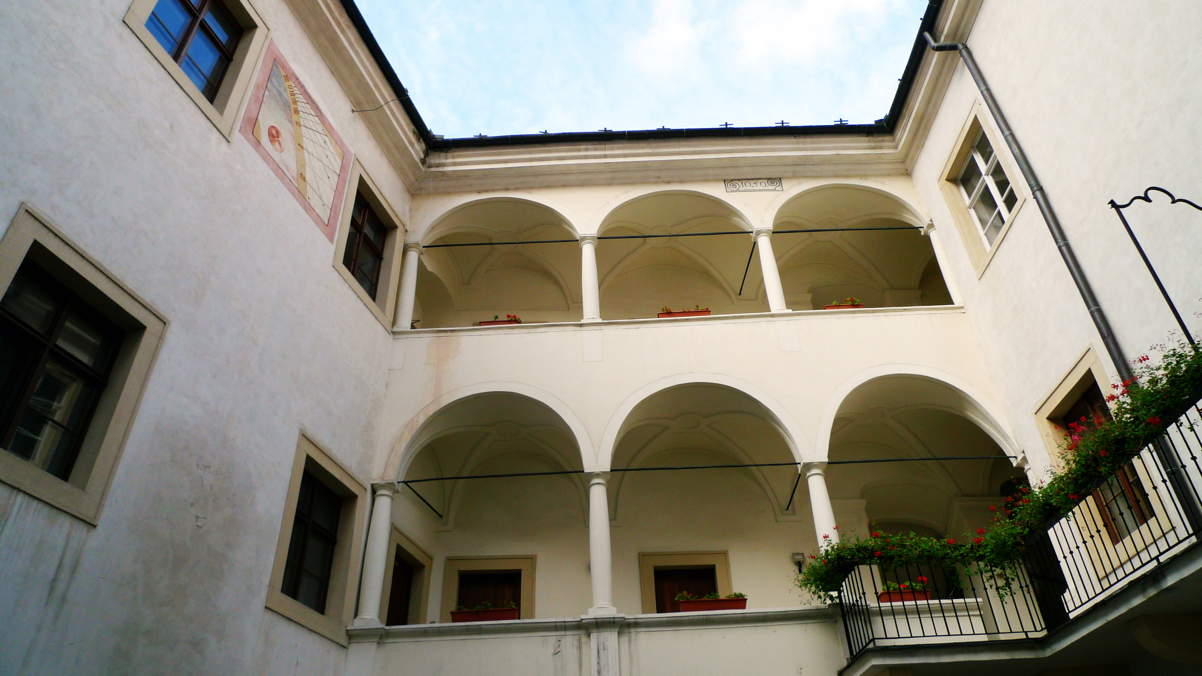 Courtyard of Renaissance Palace of Ruttkay Vrutocky in Bratislava